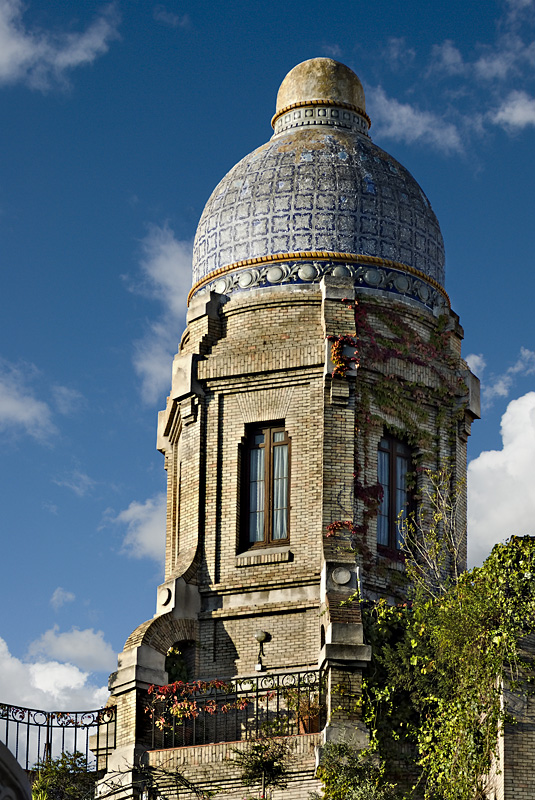 Detail of the tower at Casa dos Portugueses (literally "House of the Portuguese"), a building in Madrid (Spain). Projected in 1919 by Luis Bellido González and built between 1919 and 1922.